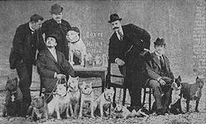 firts bóxer club from Germany in the history of the world of the breeed, with Friedich Robert rightward